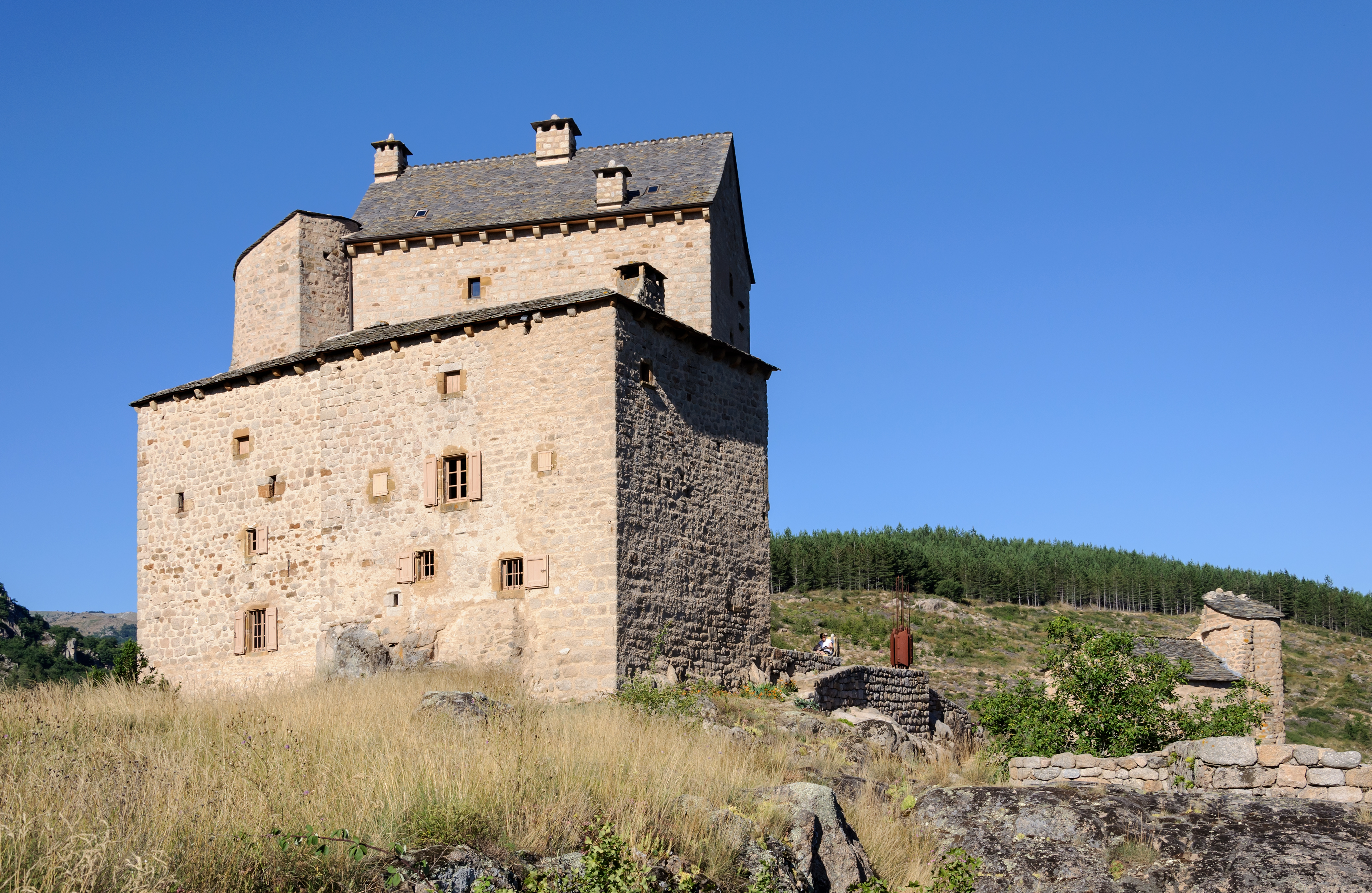 The Château de Miral in Bédouès, Lozère, France) .